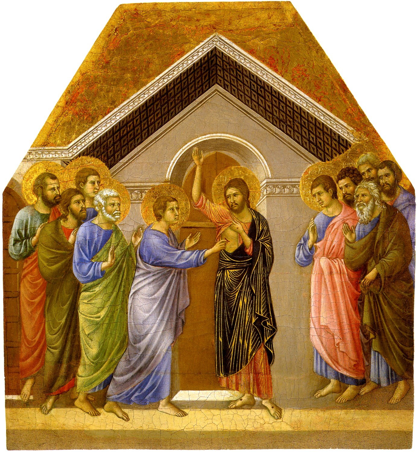 The Maesta Altarpiece-The Incredulity of st.Thomas. Duccio.